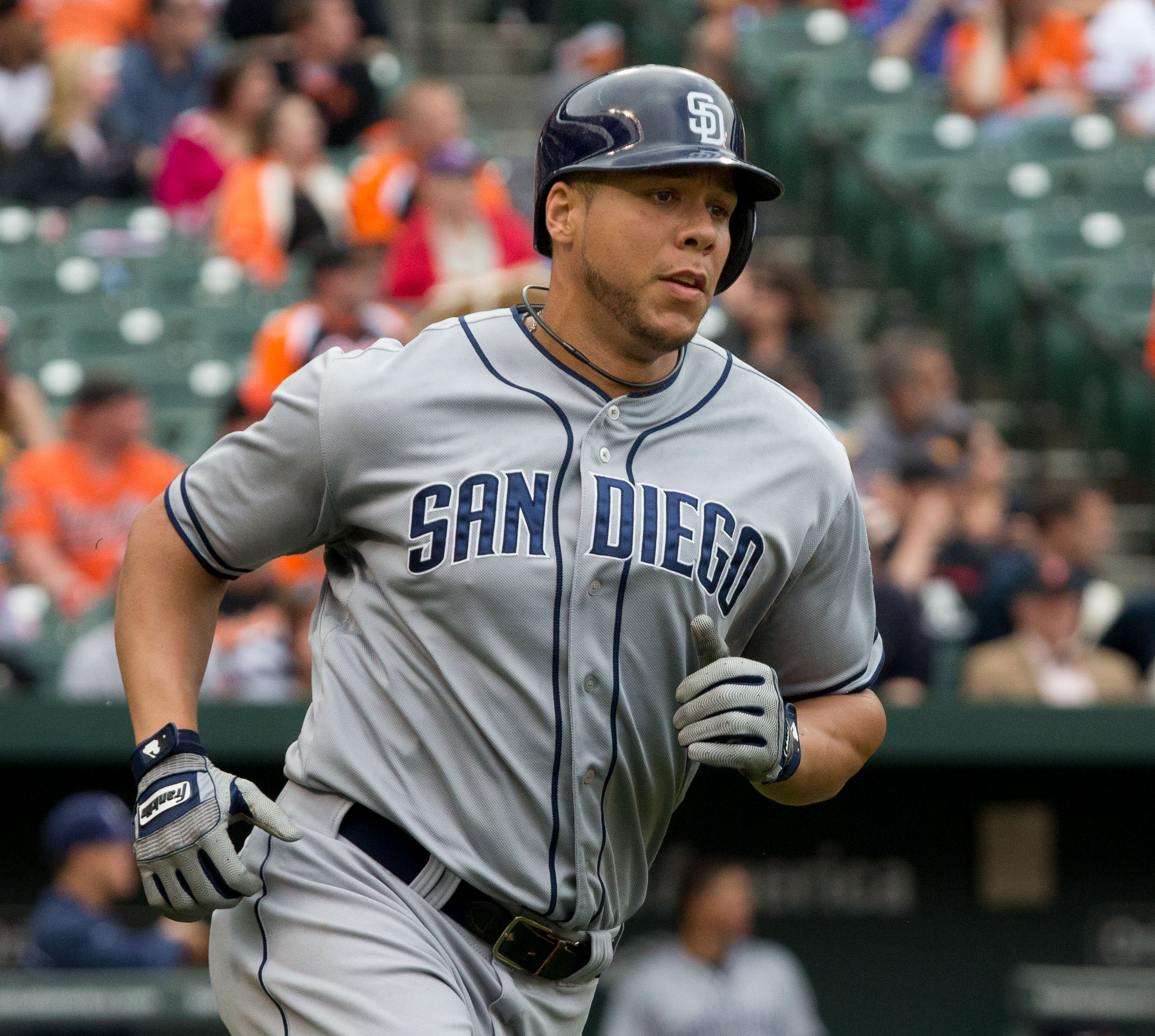 Kyle Blanks, San Diego Padres at Baltimore Orioles May 15, 2013